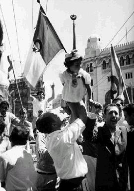 5 july 1962, independance day, Algeria